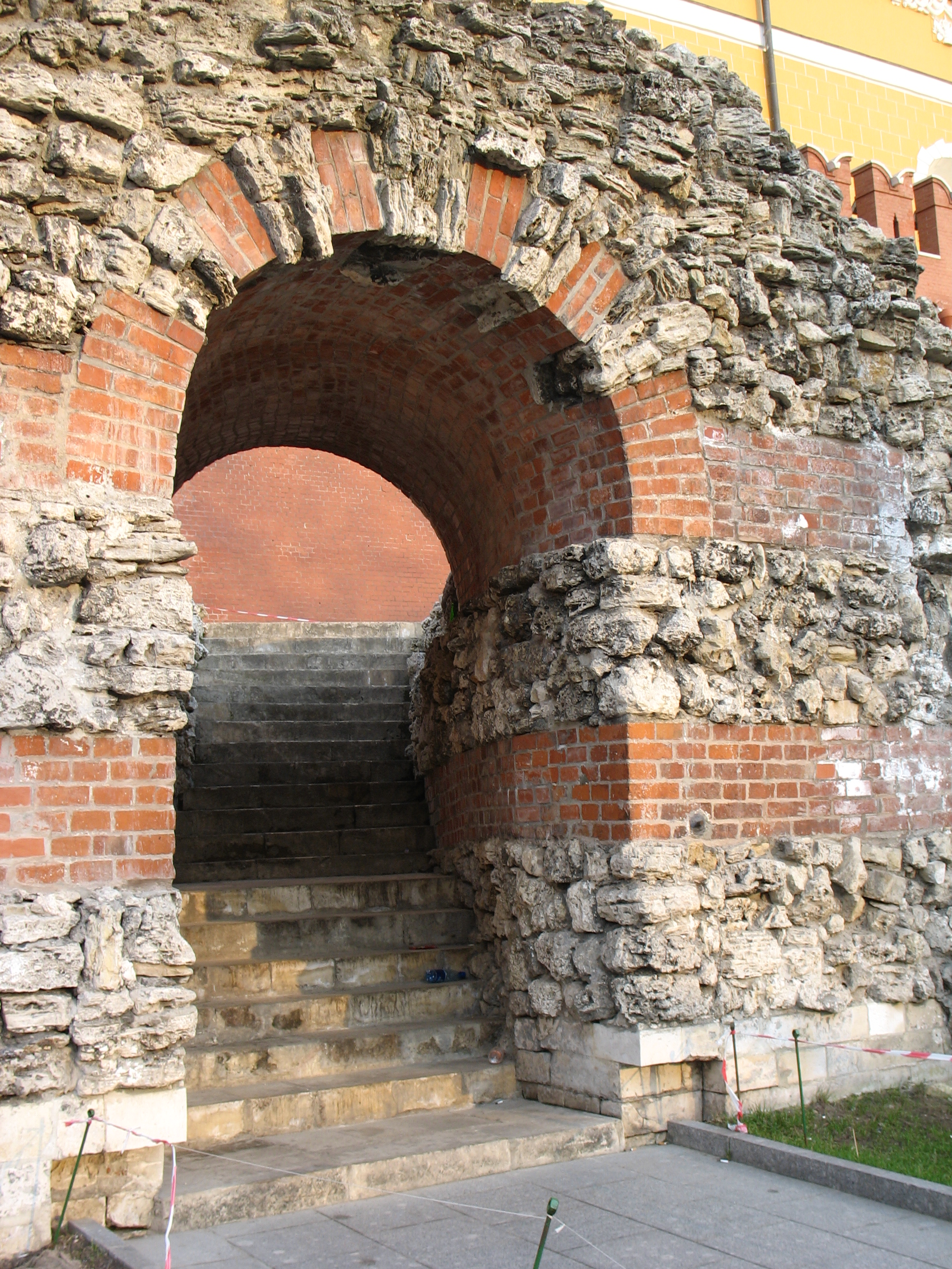 Grotto in Alexander Garden near from Moscow Kremlin